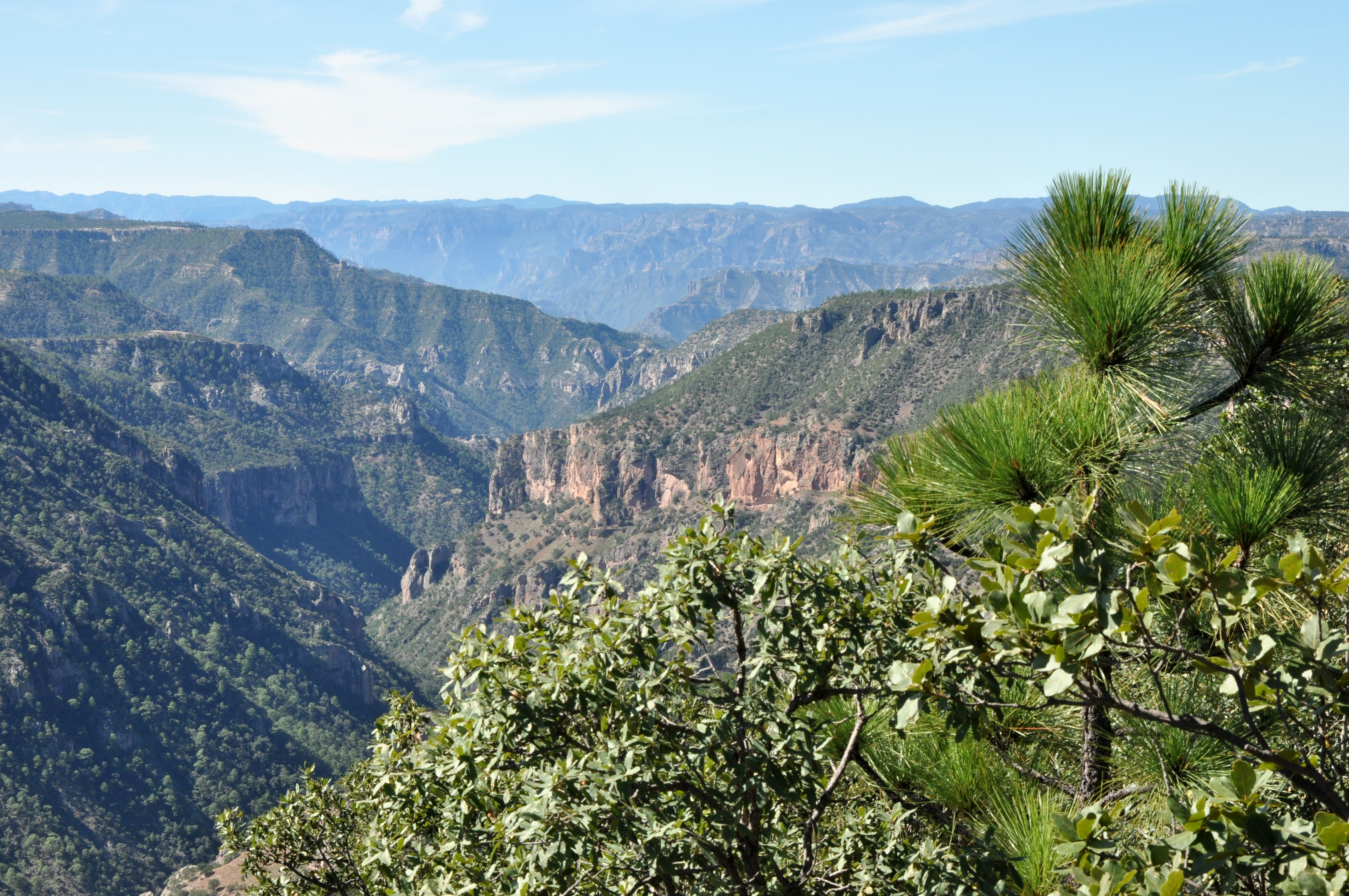 Sierra Madre Occidental, looking across Rio San Ignacio from near the village of Guajurana. Ignimbrites units of the Divisadero tuff unit, each formed by a single very large volcanic eruption, form the plateau and the visible layers.